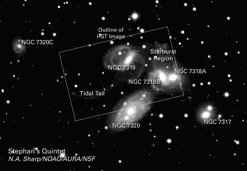 Stephan's Quintet, NGC7317, NGC7318A, NGC7318B, NGC7319, NGC7320, NGC 7320C